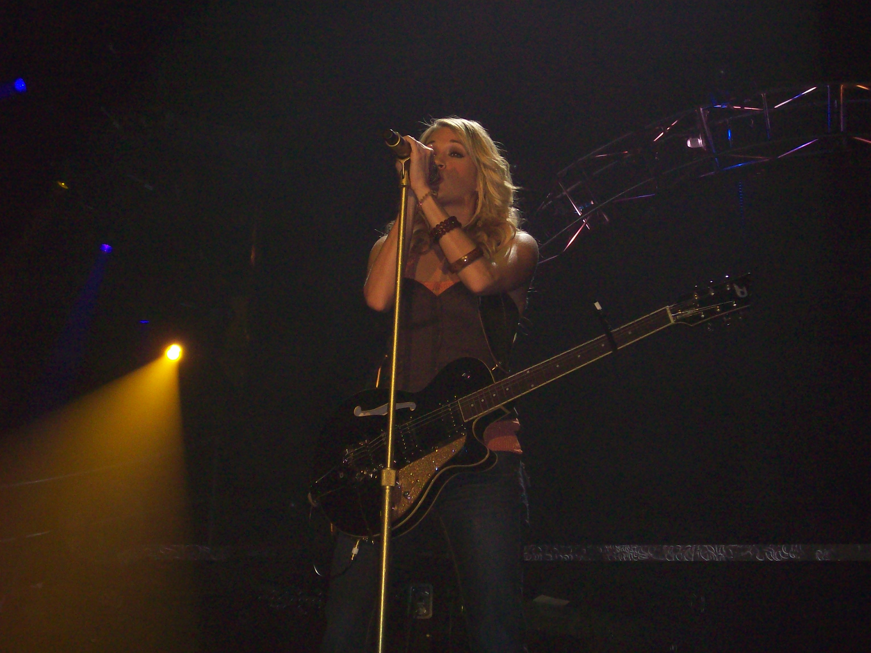 carrie underwood...little big town 262